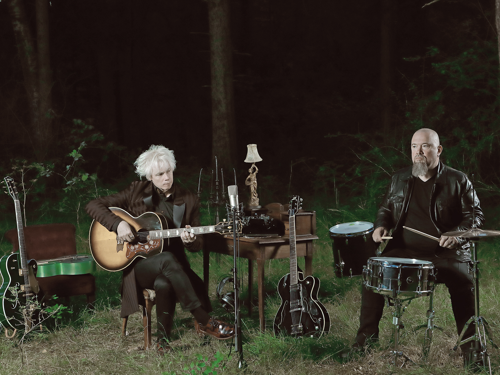 Flying With The Owl 2018